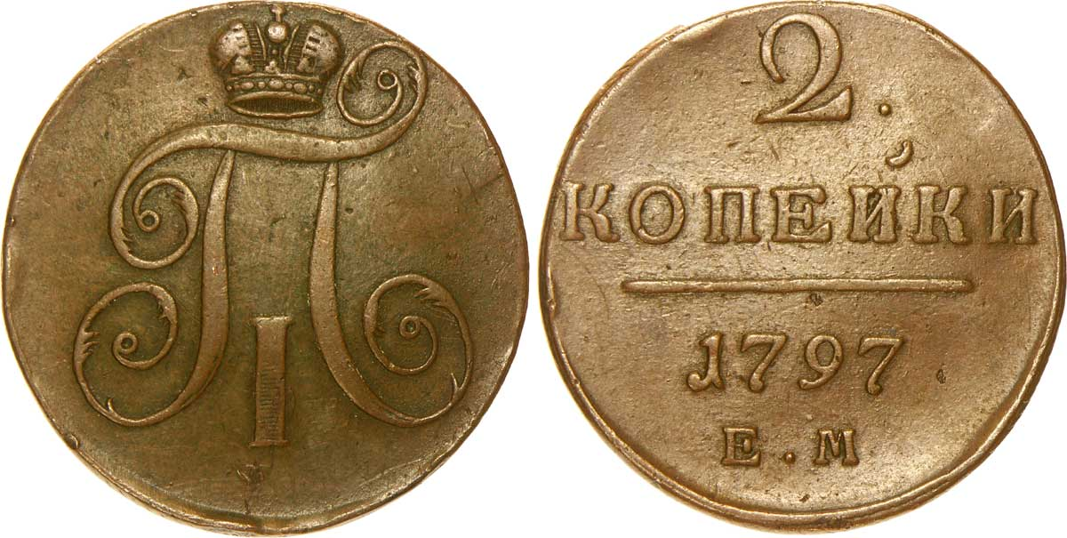 2 Kopecks au monograme de Paul Ier, 1797